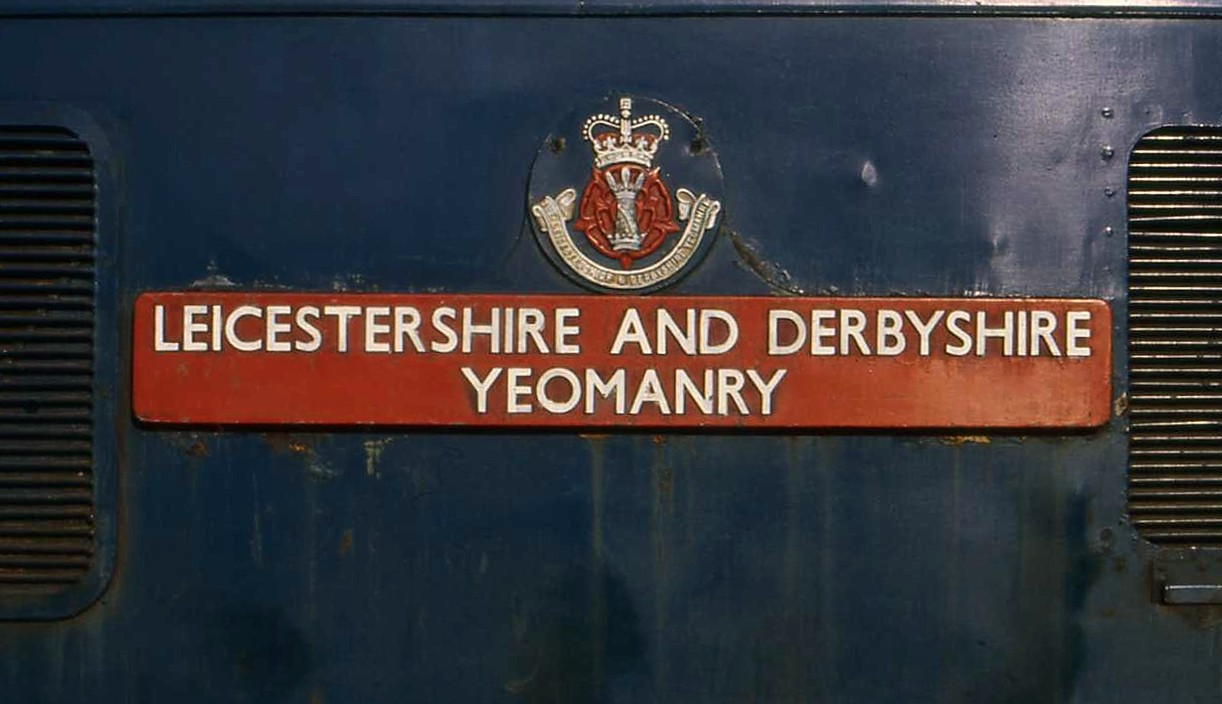 Nameplate 46026